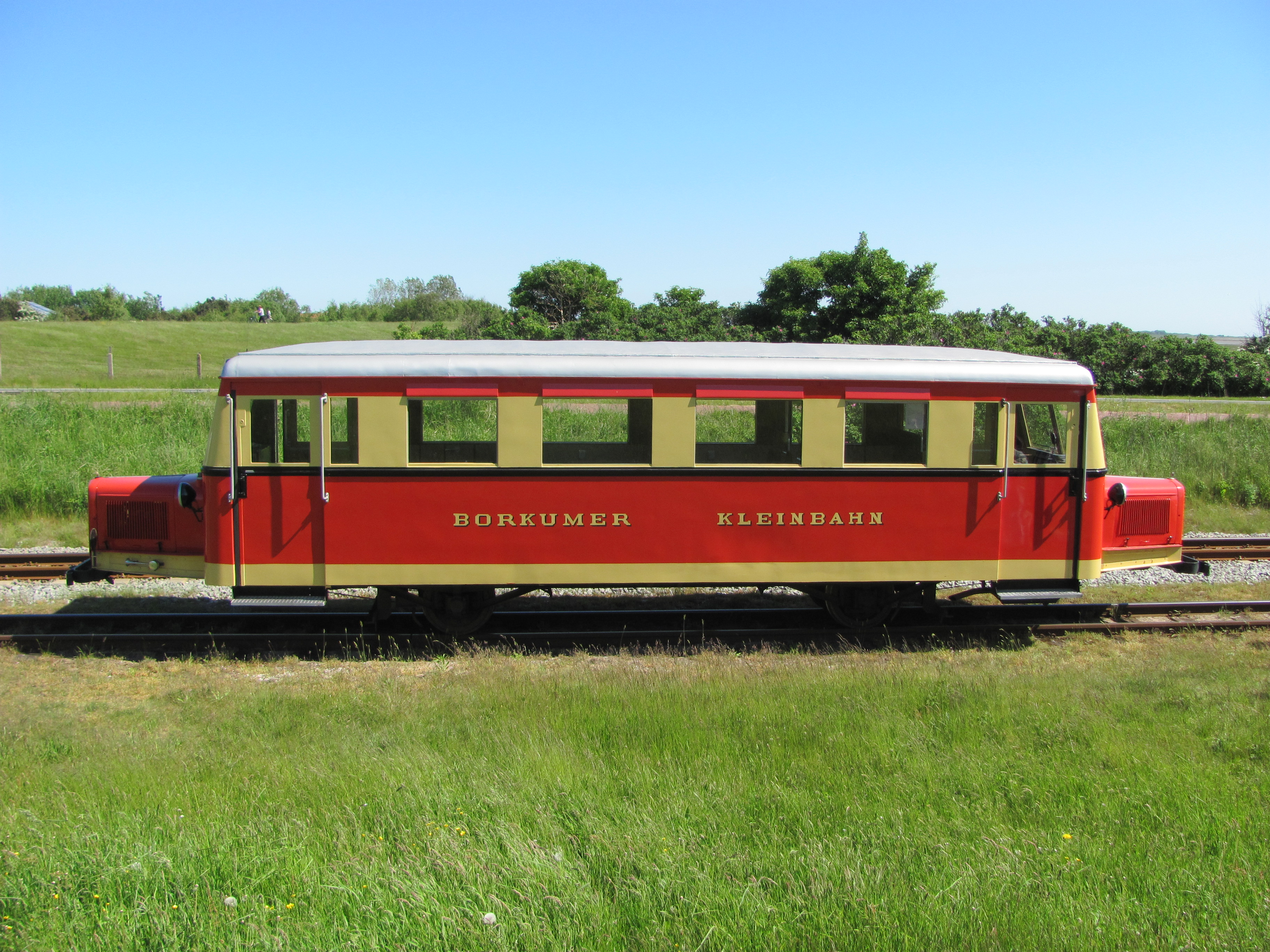 Railcar T1 of Borkumer Kleinbahn